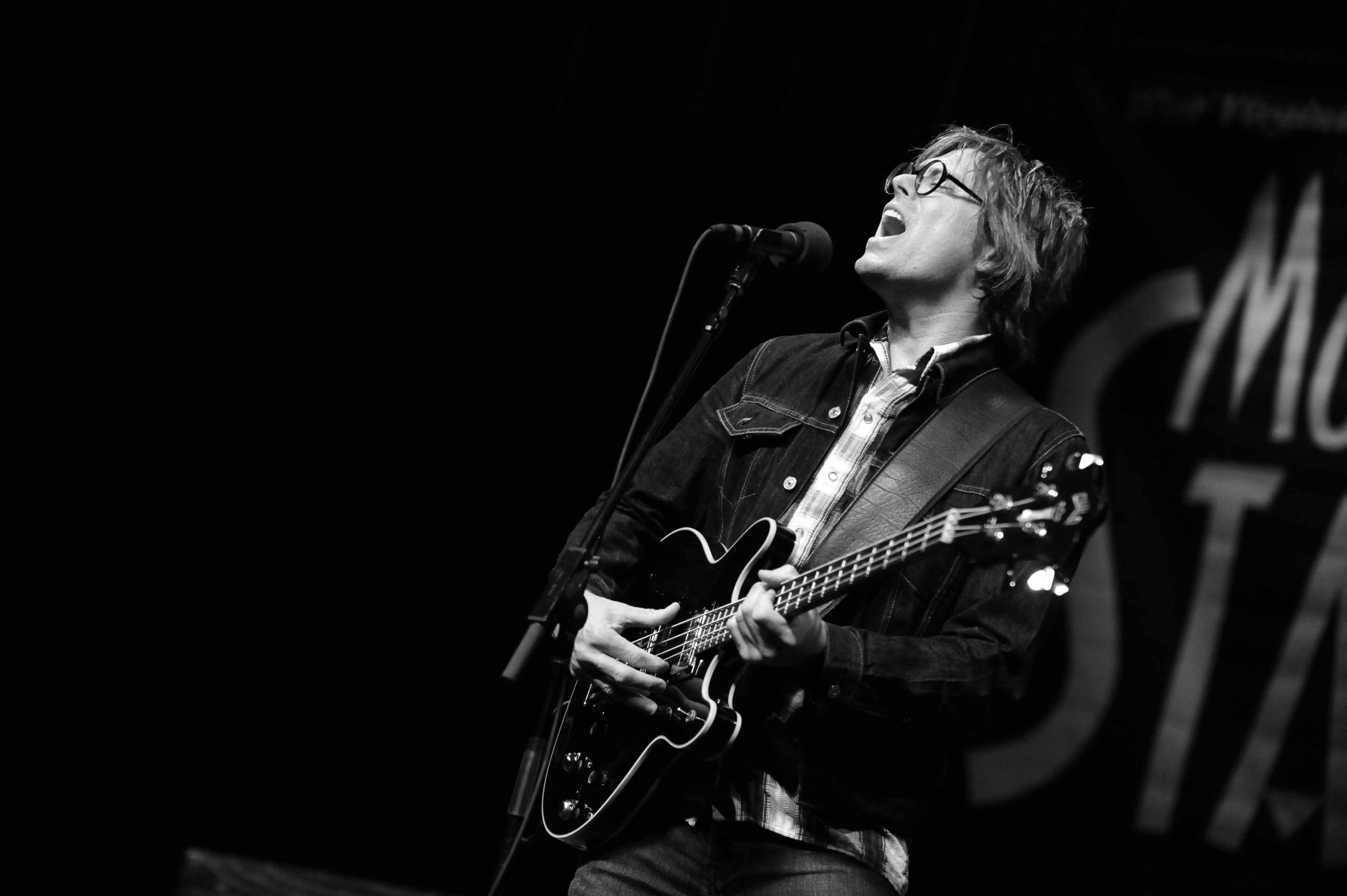 Murry Hammond of Old 97's playing at Mountain Stage.